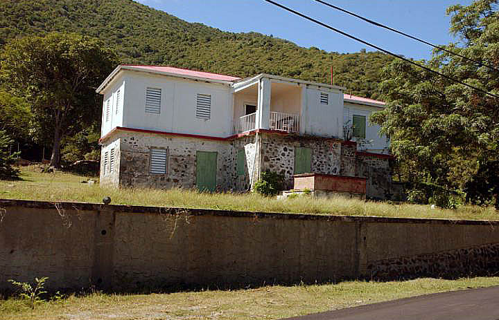 THORNTON WAS BORN IN BVI. HE WAS A QUAKER WHO CAME TO THE UNITED STATES AND DESIGNED THE CAPITOL BUILDING WASHINGTON